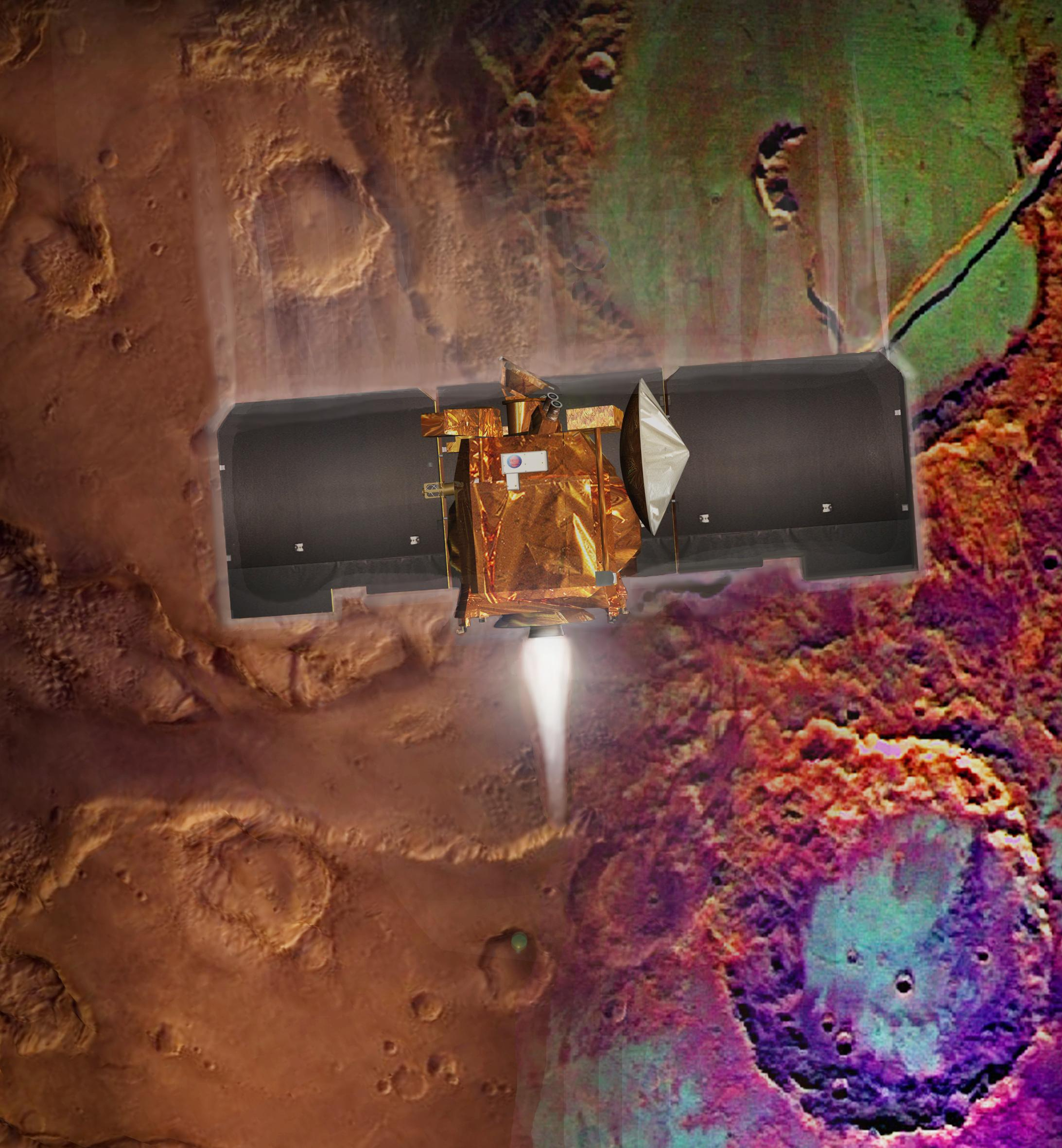 Artist's concept of Mars Odyssey orbit insertion